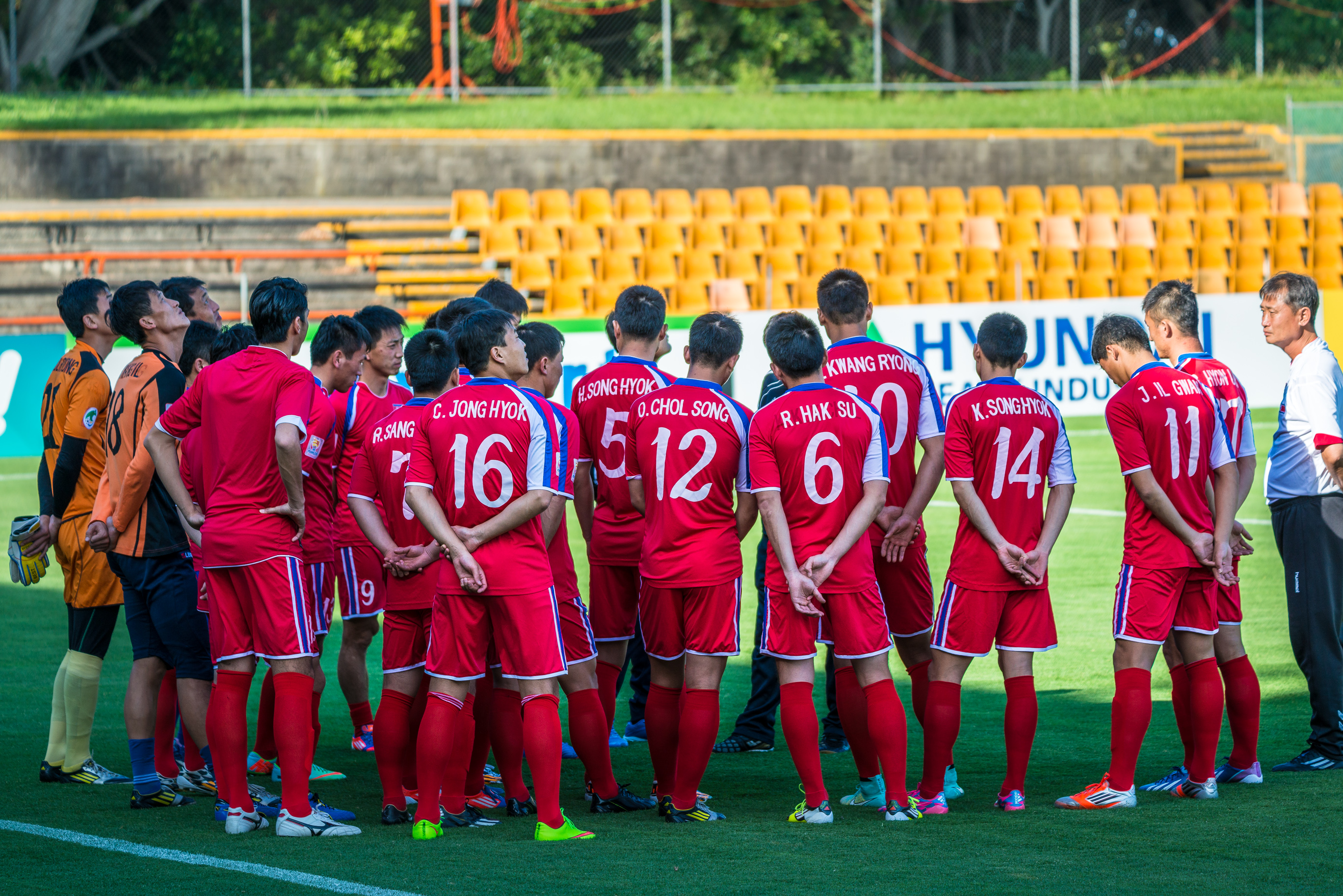 North Korea national football team train for the AFC Asian Cup